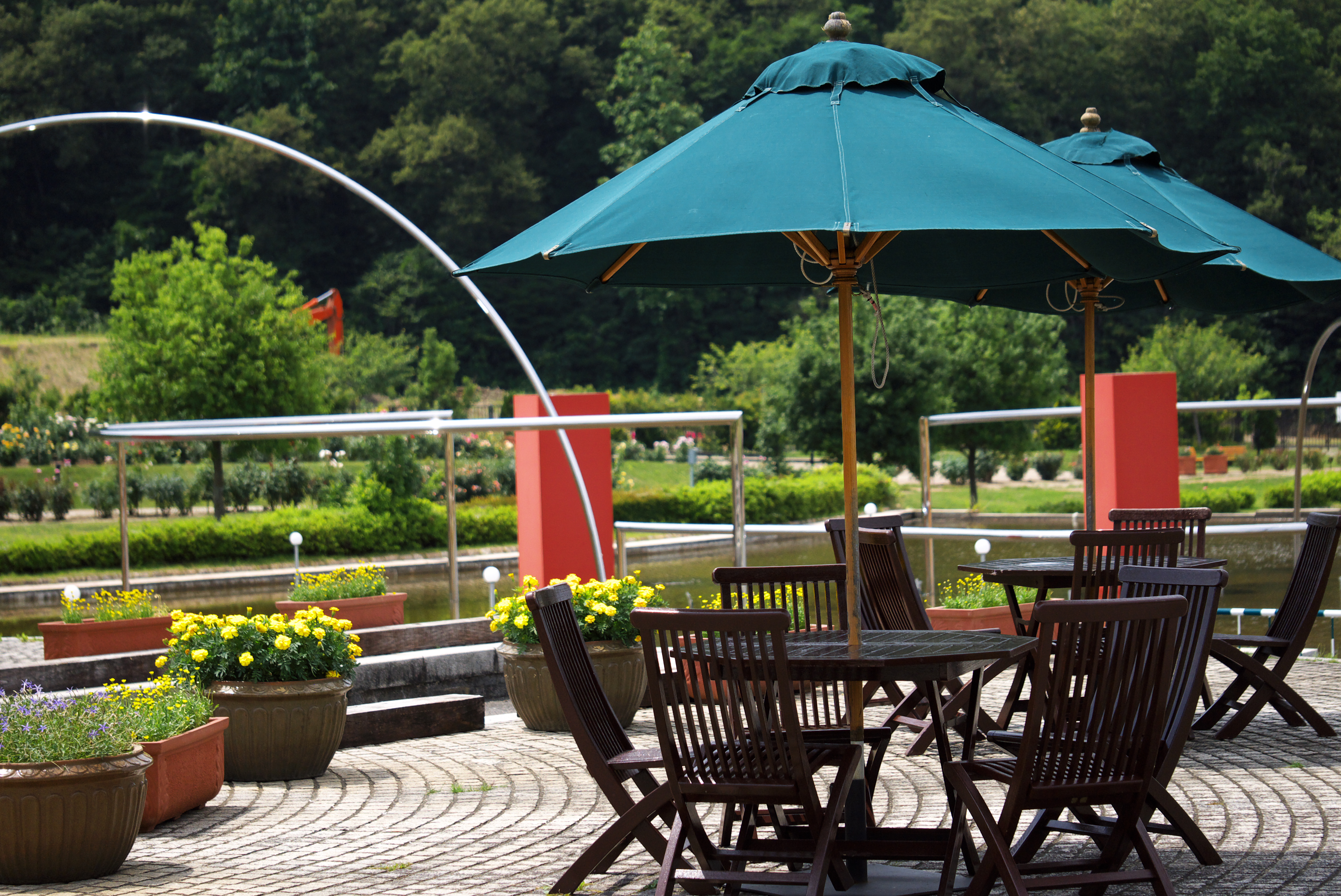 Rose Café in Echigo Hillside National Government Park, Nagaoka, Niigata Prefecture, Japan